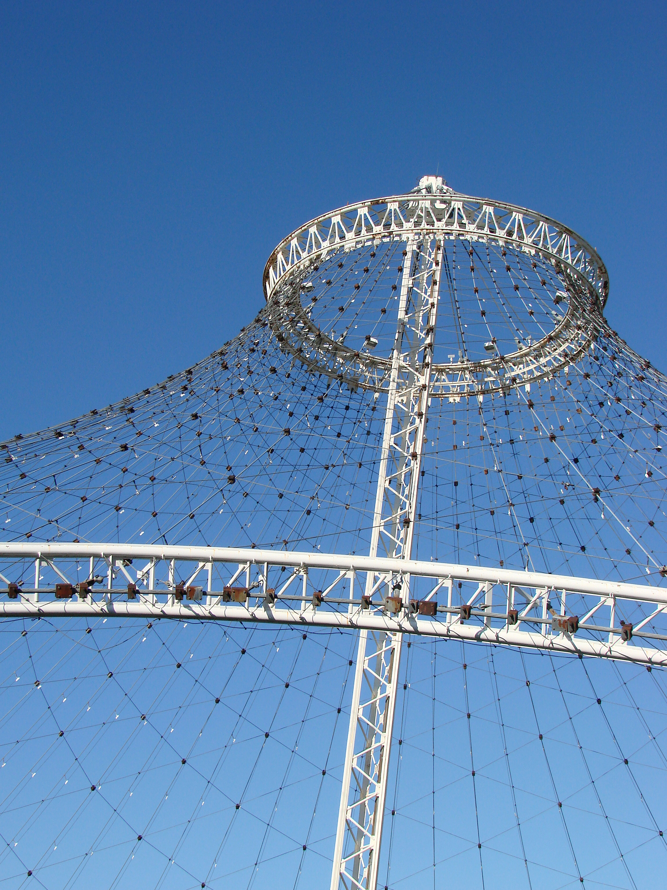 Detail of Landmark from 1974 World's Fair - Spokane WA - USA